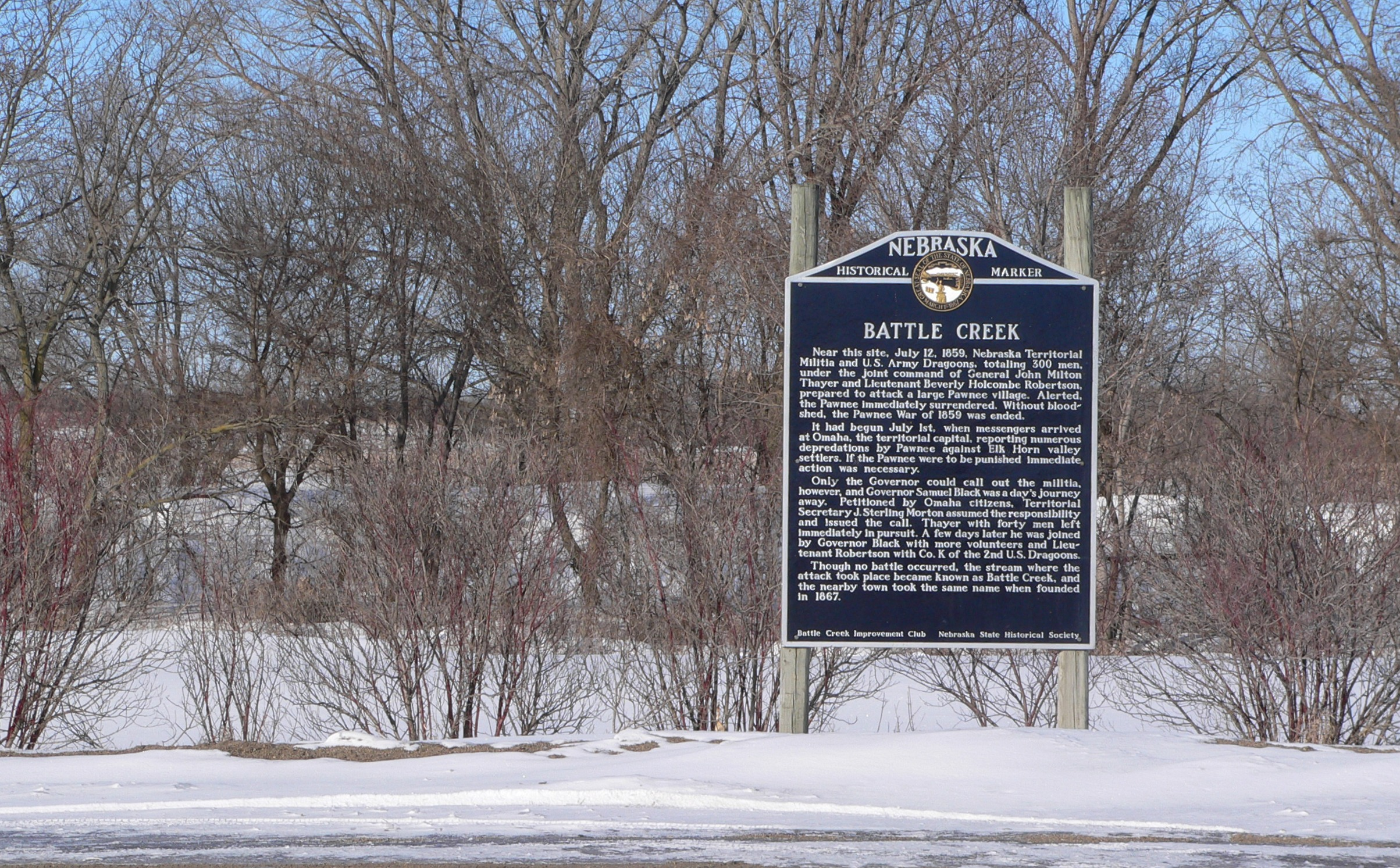 Historical marker at northern edge of Battle Creek, Nebraska.